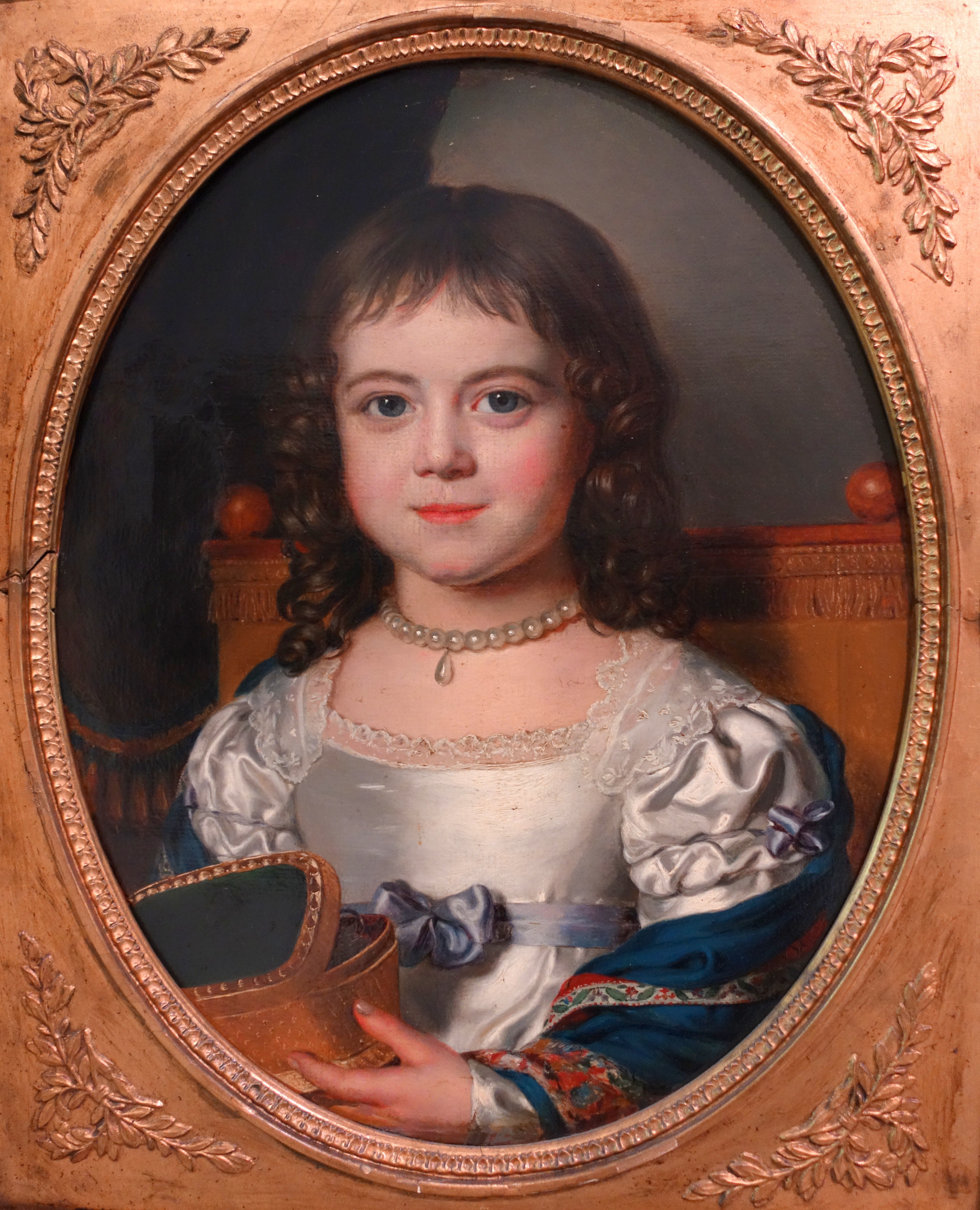 Exhibit in the Museum M - Leuven, Belgium. This artwork is in the public domain because the artist died more than 70 years ago.